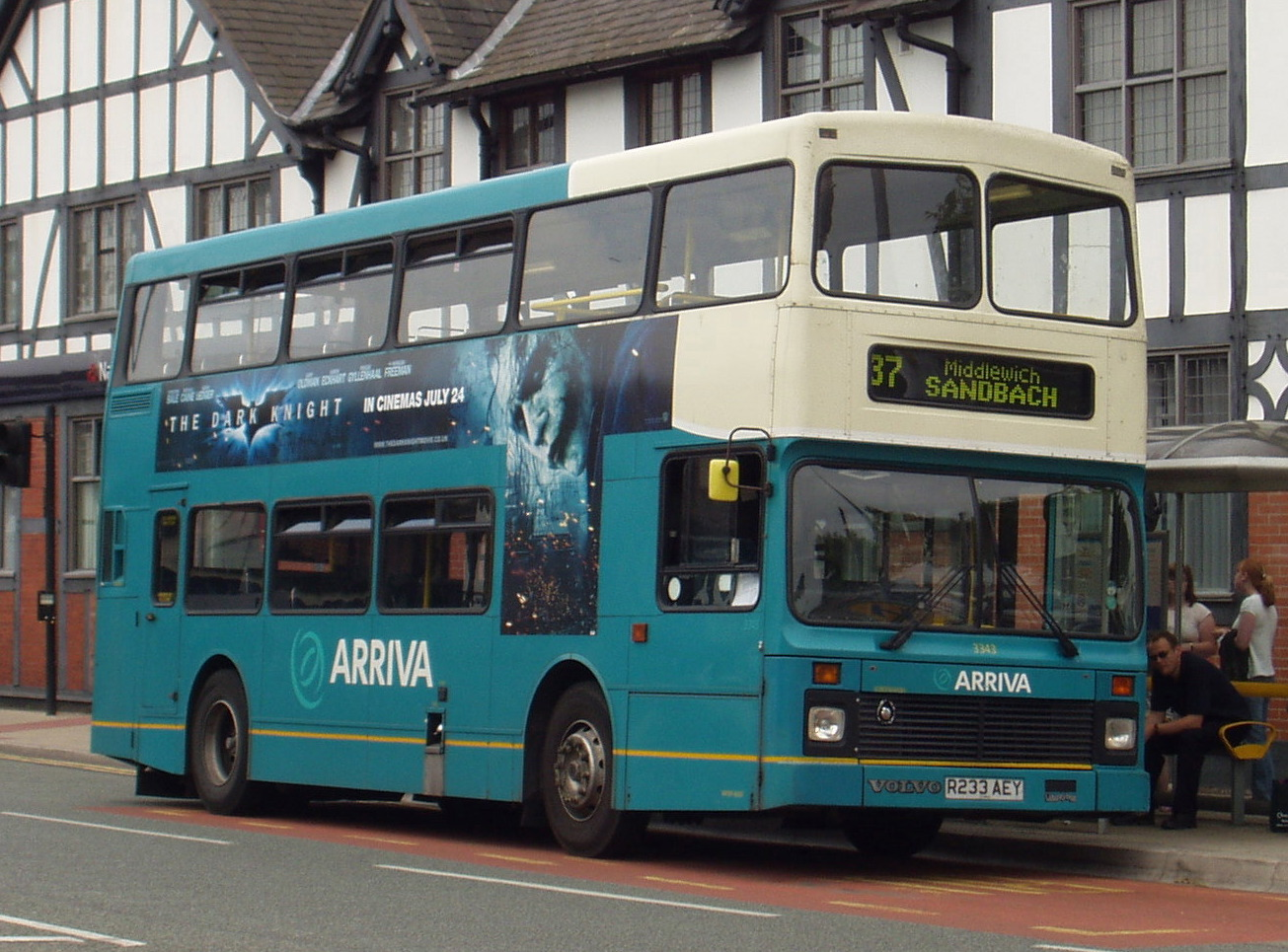 Volvo Olympian R233 AEY bus with Northern Counties Palatine 1 bodywork in Northwich, Cheshire